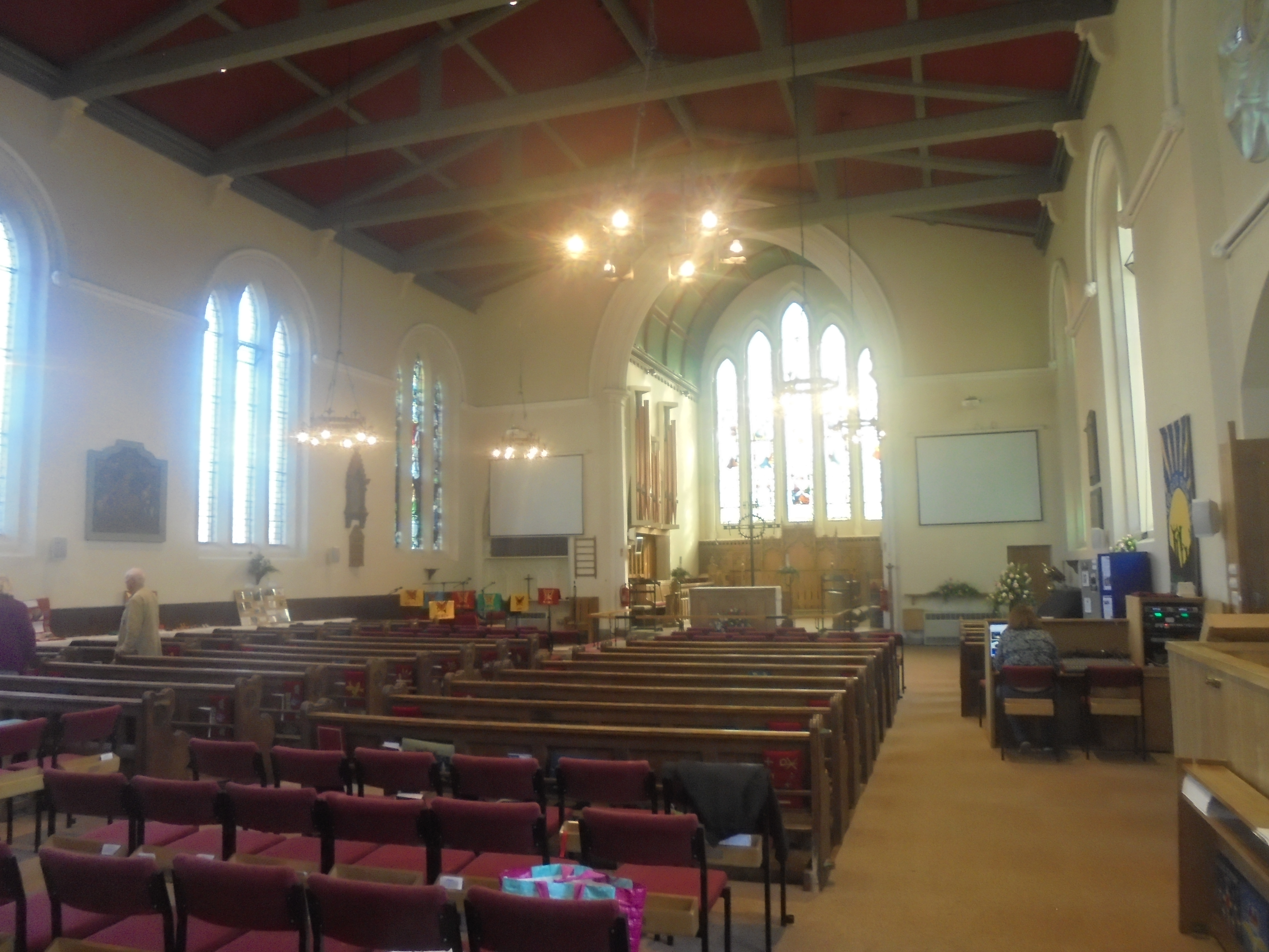 Interior of St. James' Church, Wetherby, West Yorkshire. Taken on the morning of Saturday the 21st of September 2019. The church is usually closed but had an open day during the UCI Para-cycling race start. I have wanted to photographs the inside for a while. The church is smart but somewhat more austere than I had imagined.